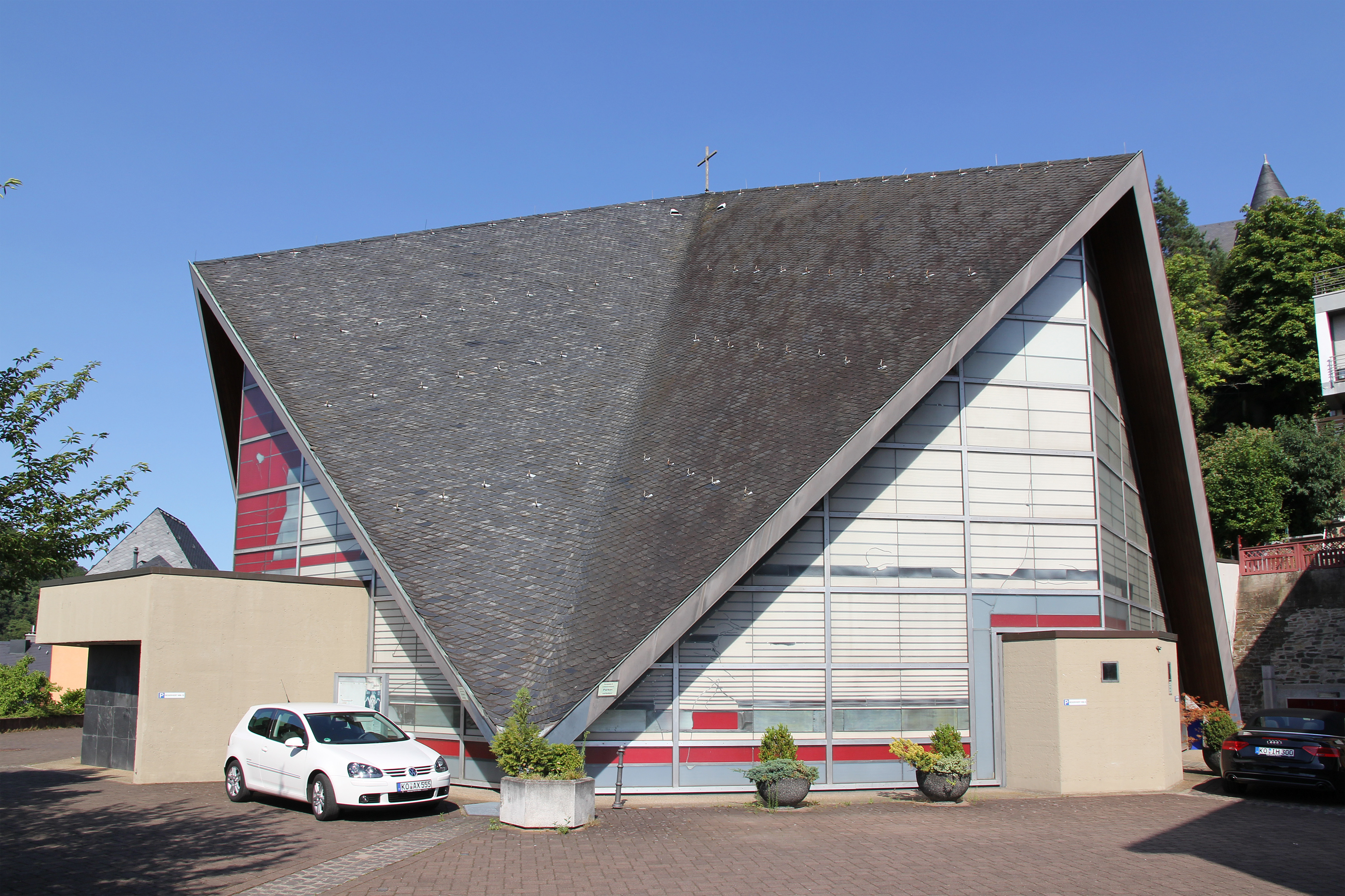 Heilig-Kreuz-Kirche in Koblenz